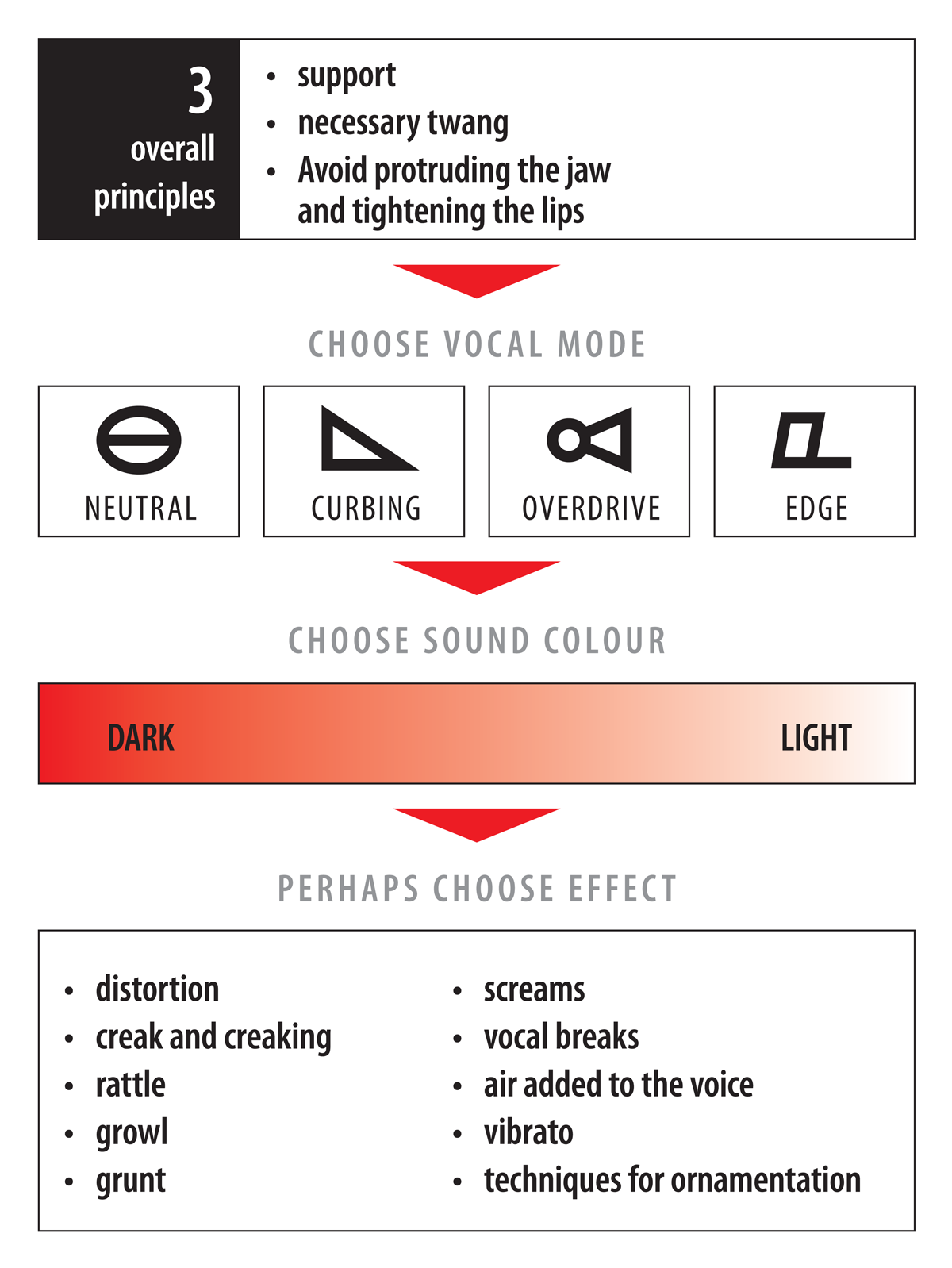 An overview of 'Complete Vocal Technique' as described in Cathrine Sadolins book 'Complete Vocal Technique'.